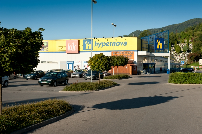 Hypernova in Povazska Bystrica